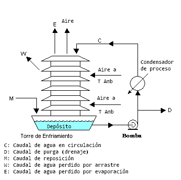 Modified from